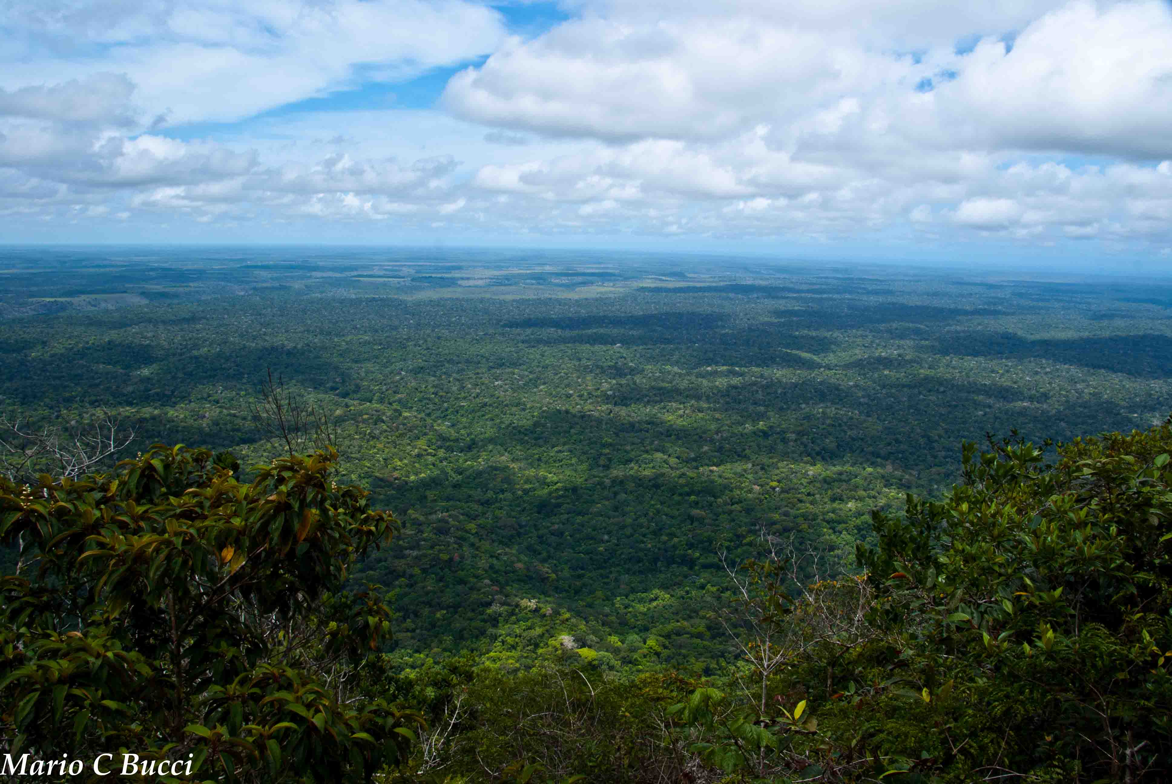 View of Monte Pascoal National Park from Monte Pascoal elevation.